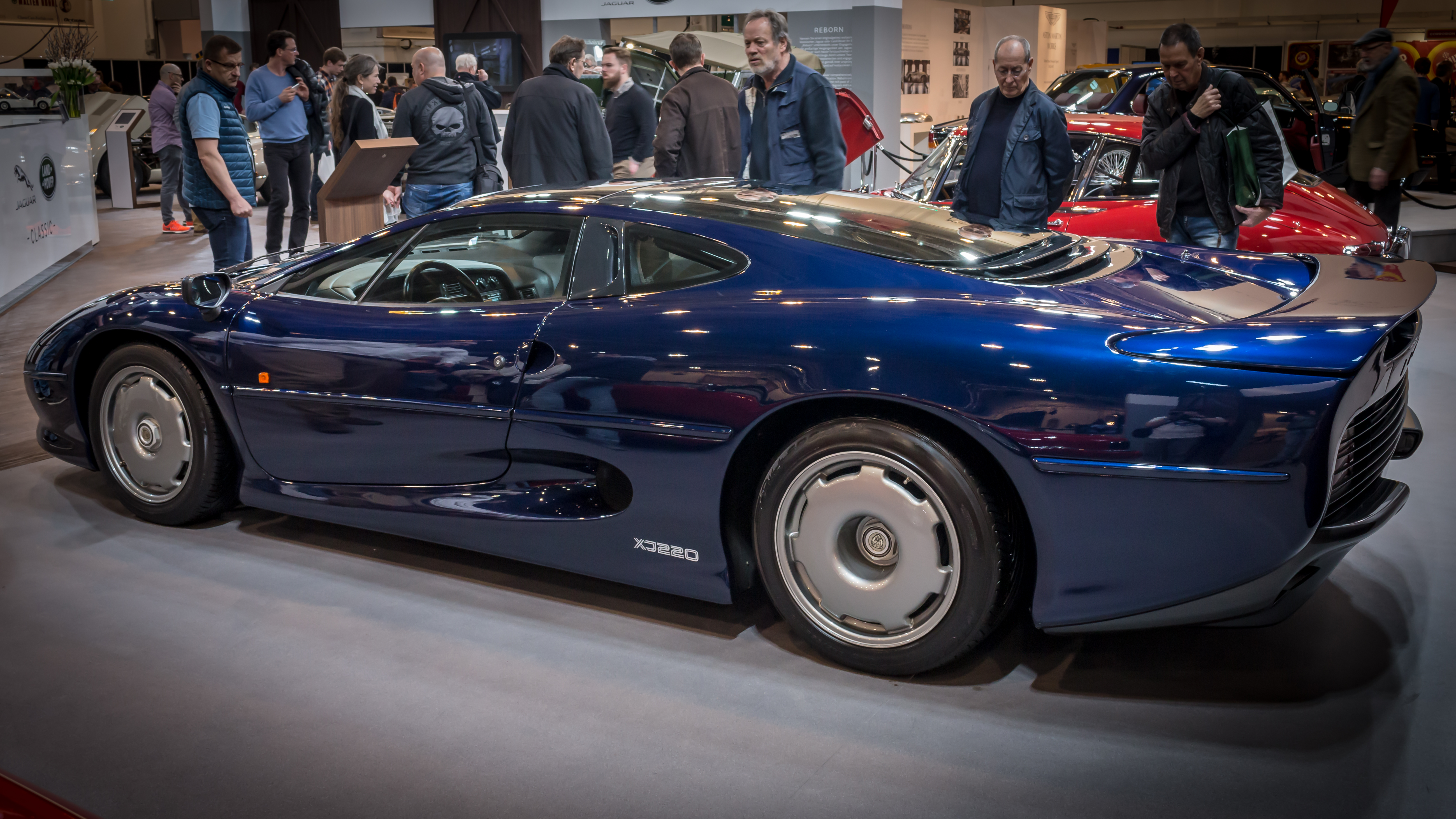 Jaguar, Techno Classica 2018, Essen